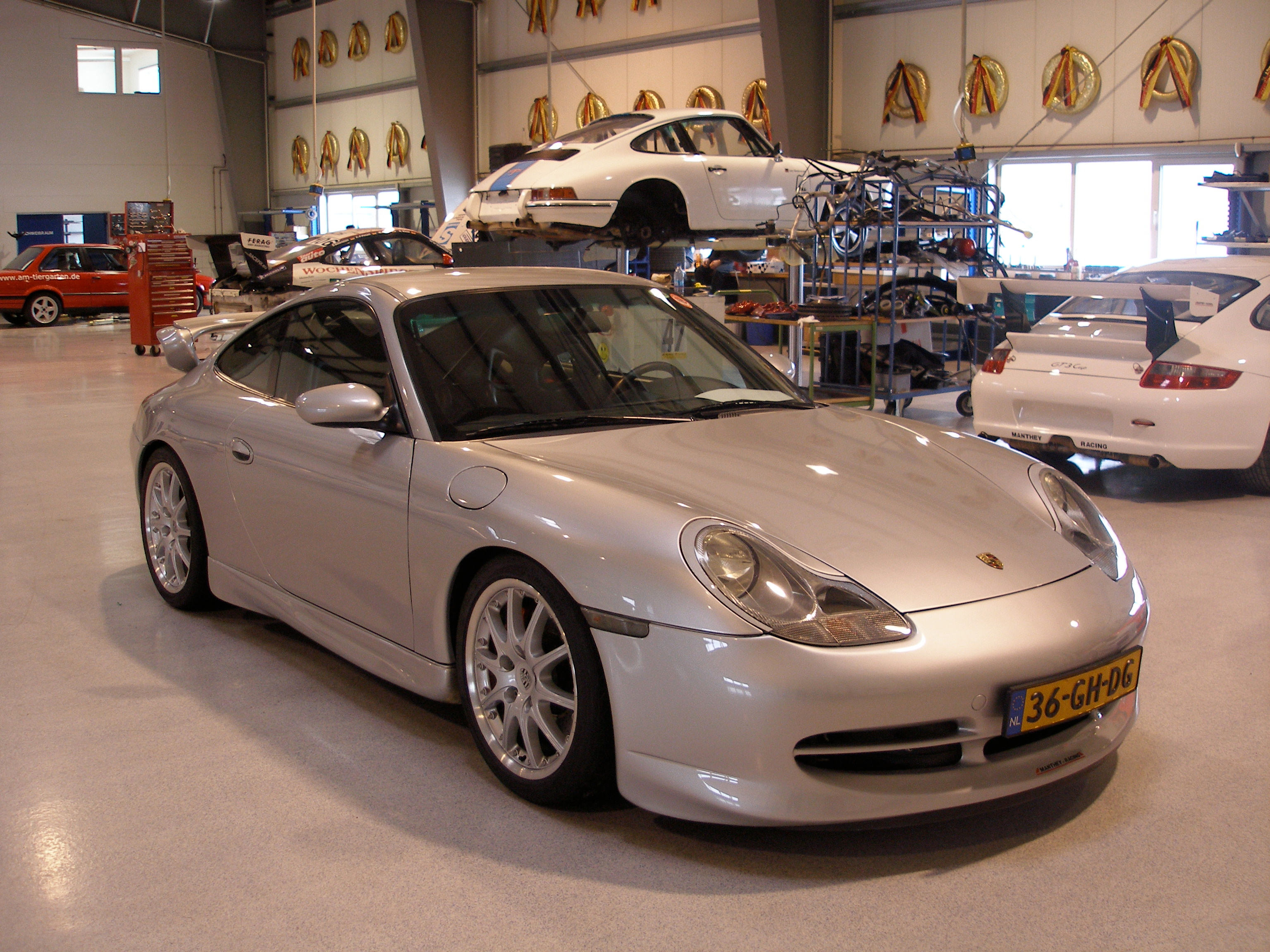 1999 Porsche GT3 (Mark I) after service at Manthey Racing.